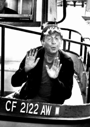 Publicity photo of Sterling Holloway in the sitcom The Baileys of Balboa.